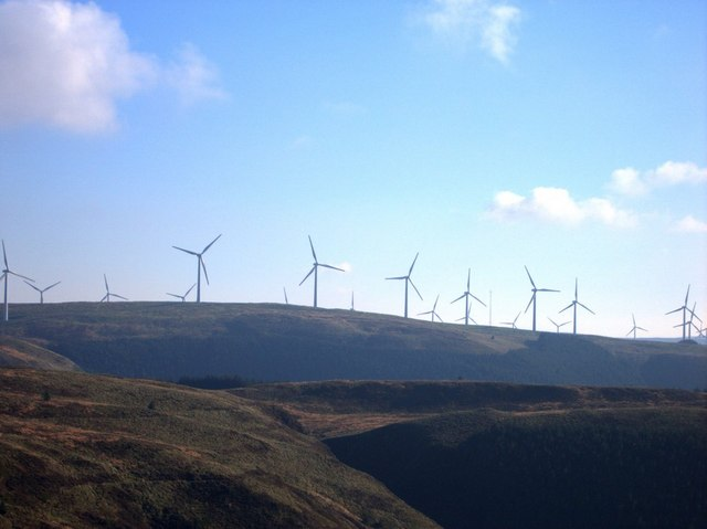 View of Cefn Croes wind power station from Bwlch Helygen Wales's largest on-shore wind power station. It consists of 39 turbines and has an installed capacity of 58.5 MW. The size of the turbines can be judged by the fact that they are about 3km away from the vantage point.